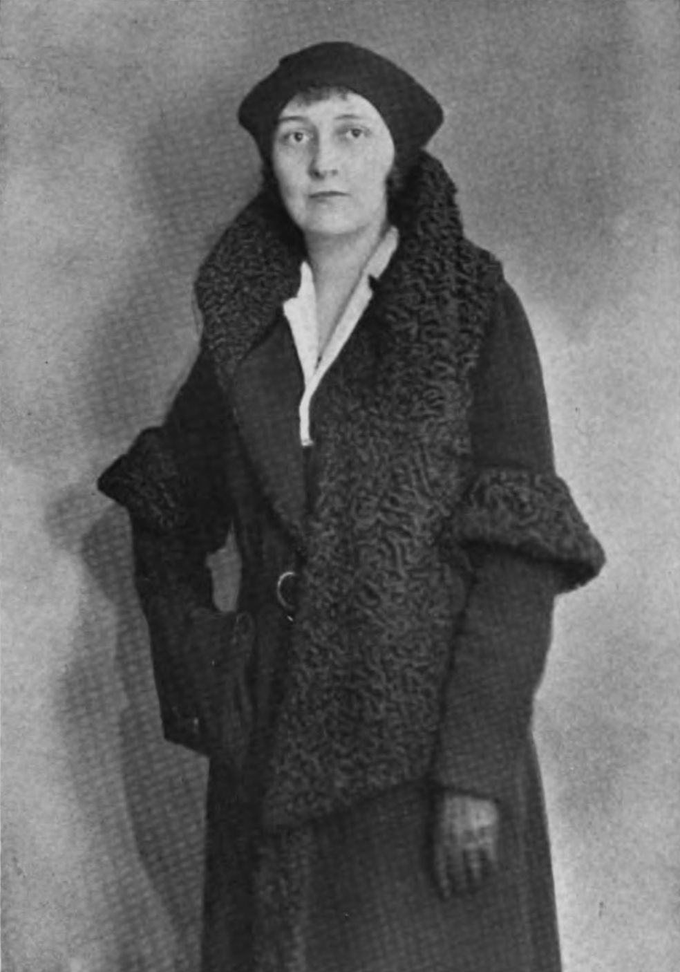 Photo of Mildred Seydell standing and wearing a hat, coat and gloves